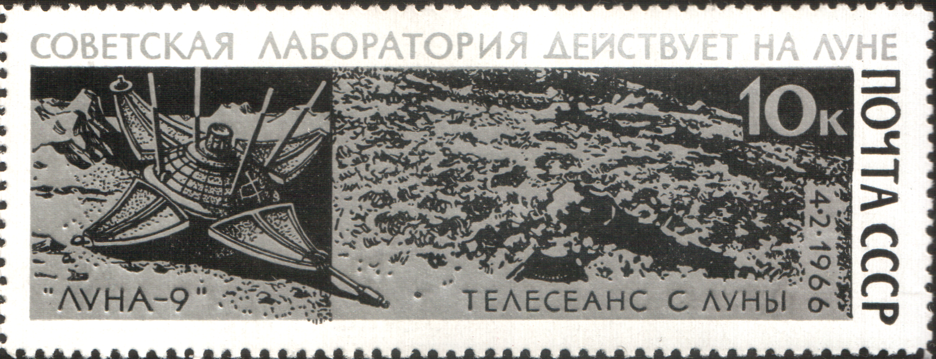 USSR stamp: “Luna 9” on Moon's Surface and 1st Television Program of Moon Pictures on February 4. Series: 1st Soft Landing on the Moon by Soviet Space Probe “Luna 9”, February 3, 1966